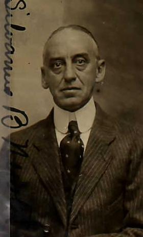 Silvanus B. Newton